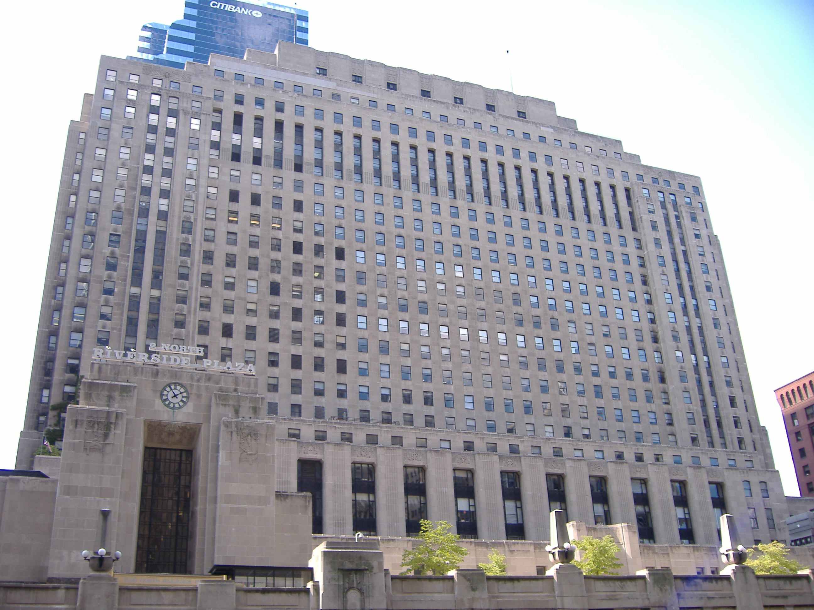 Riverside Plaza Building, Chicago, Illinois.